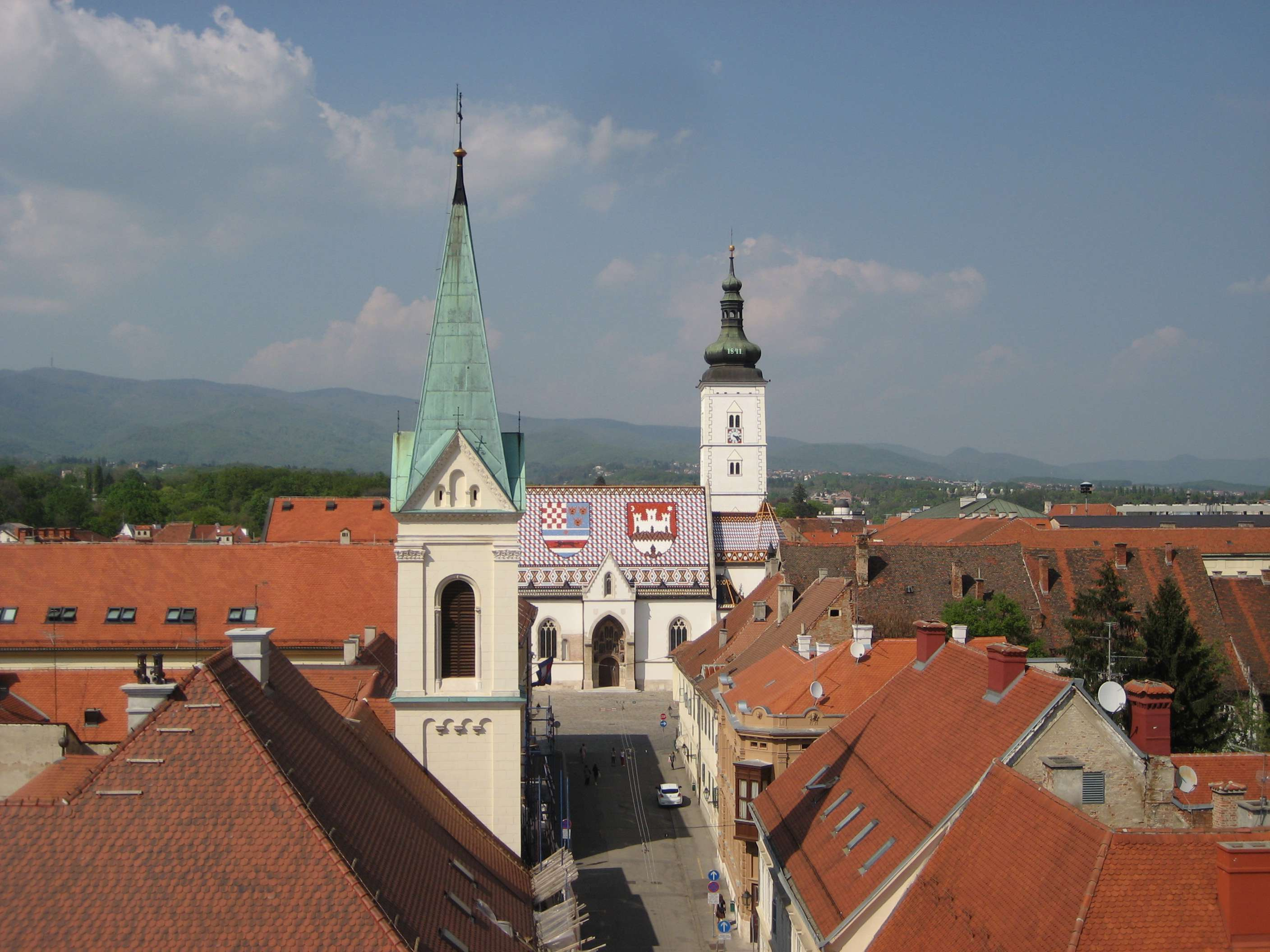 View of the town of Zagreb from the Lotrscak tower